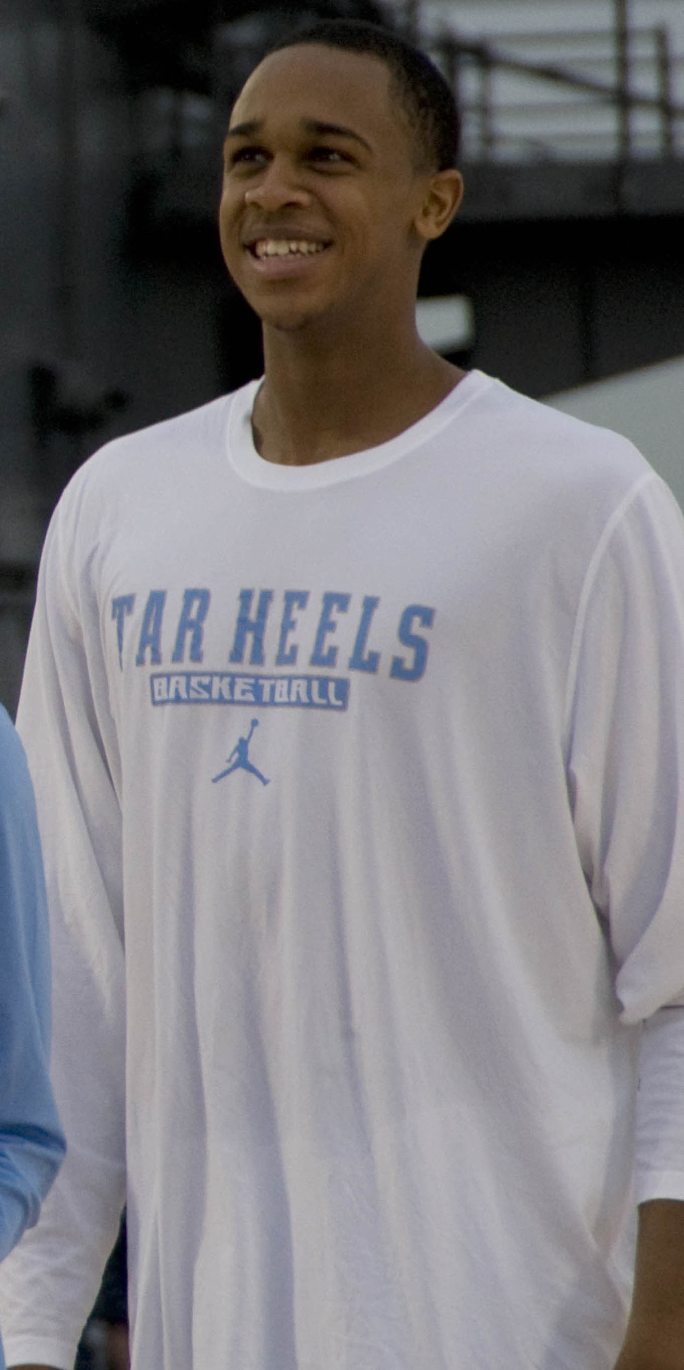 SAN DIEGO (Nov.10, 2011) University of North Carolina basketball players Dexter Strickland, left, and John Henson, right, practice aboard the Nimitz-class aircraft carrier USS Carl Vinson (CVN 70). Carl Vinson is hosting the Michigan State Spartans and the University of North Carolina Tar Heels for the inaugural Quicken Loans Carrier Classic basketball game on Veteran's Day, Nov. 11. (U.S. Navy photo by Mass Communication Specialist Seaman Apprentice Karolina A. Martinez/Released)